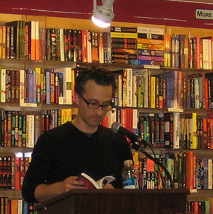 Micah Nathan reading at Brookline Booksmith